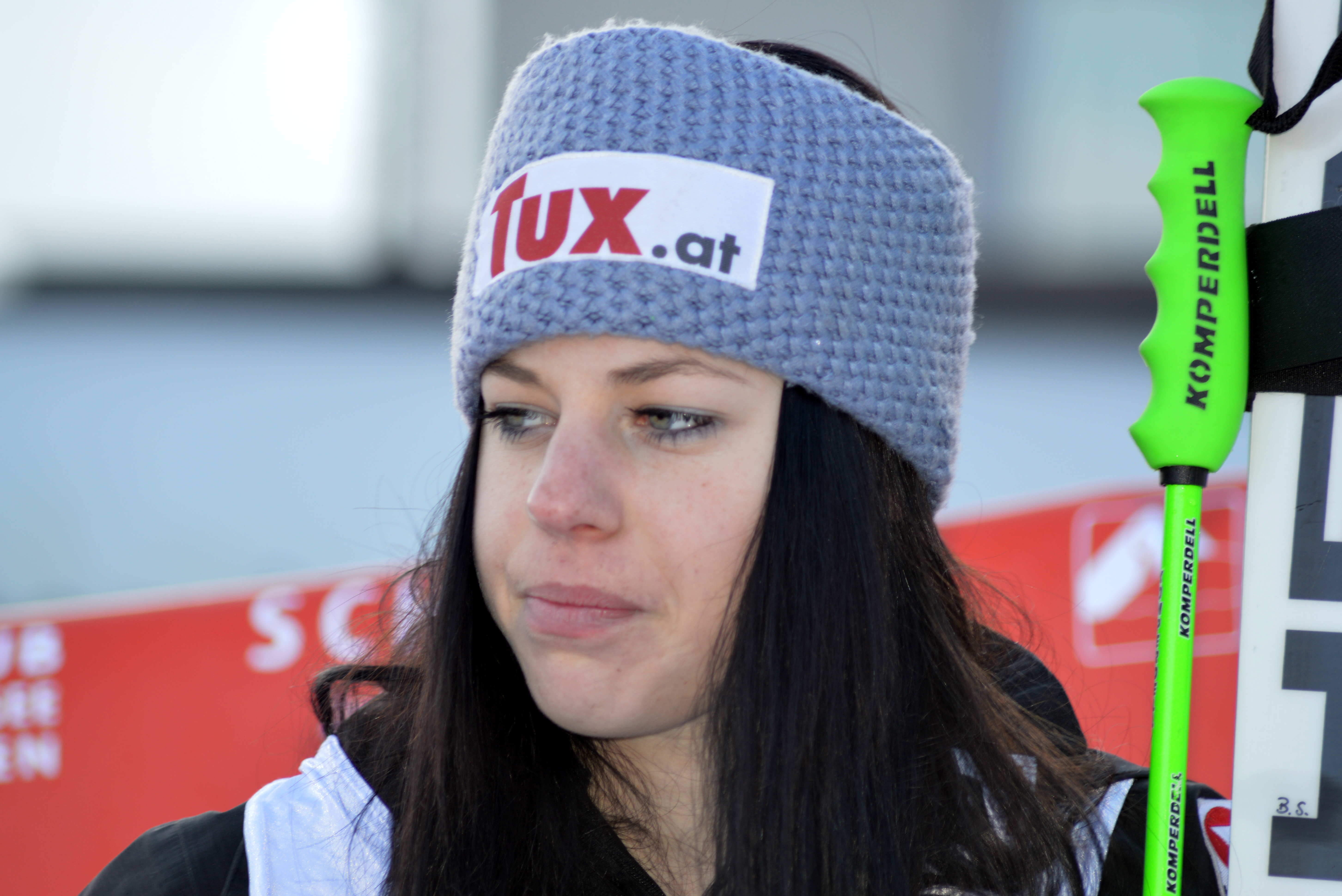 Stephanie Brunner, an Austrian alpine ski racer, born on 20 February 1994 in Tyrol, is a slalom and giant slalom specialist.The picture was taken after the EC-Giant Slalom in Zell am See, Salzburg (state), Austria, on 22nd of January 2015. Stephanie Brunner was third behind Wendy Holdener (Switzerland) and Taina Barioz (France). Her biggest success to date was the 1st place in the slalom at the Junior World Championships in Roccaraso in winter 2011/2012.